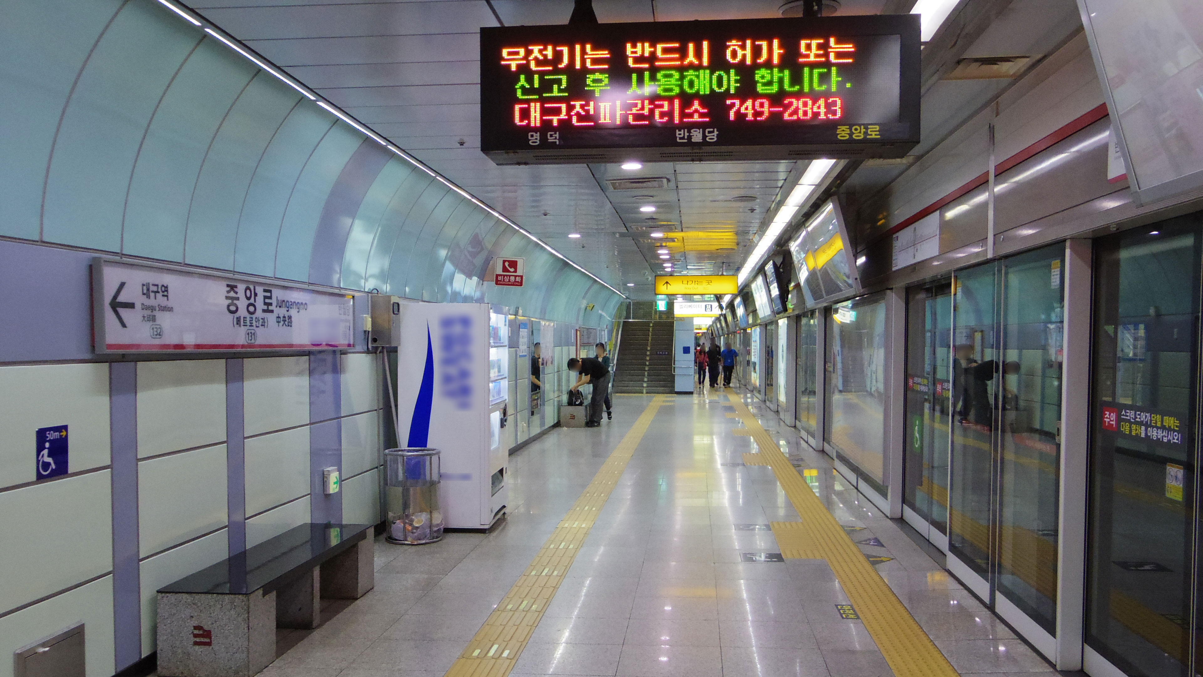 The Ansim-bound platform at Jungangno Station on the Daegu Metro Line 1 in Jung-gu, Daegu, Republic of Korea(South Korea)